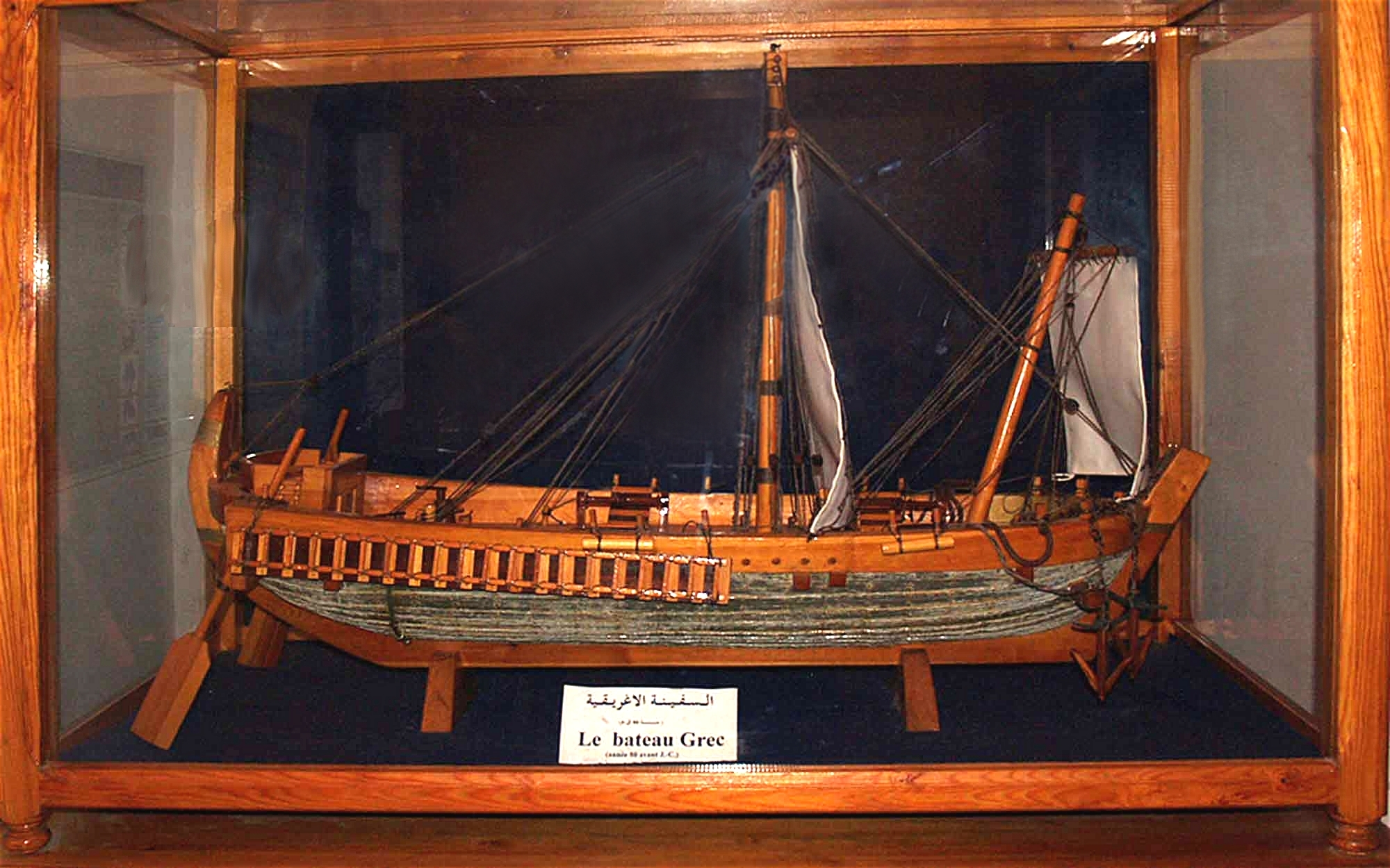 Ship in miniature exposed in Bardo National Museum